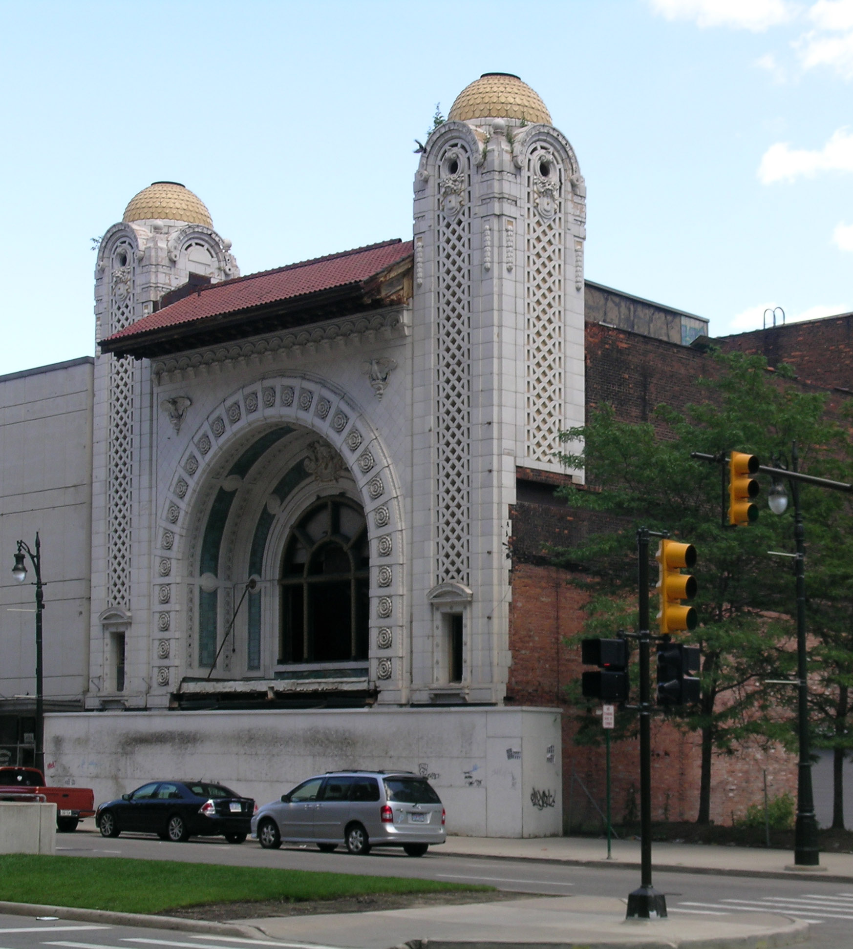 The National Theatre at 118 Monroe — Detroit, Michigan. Historic district contributing property.